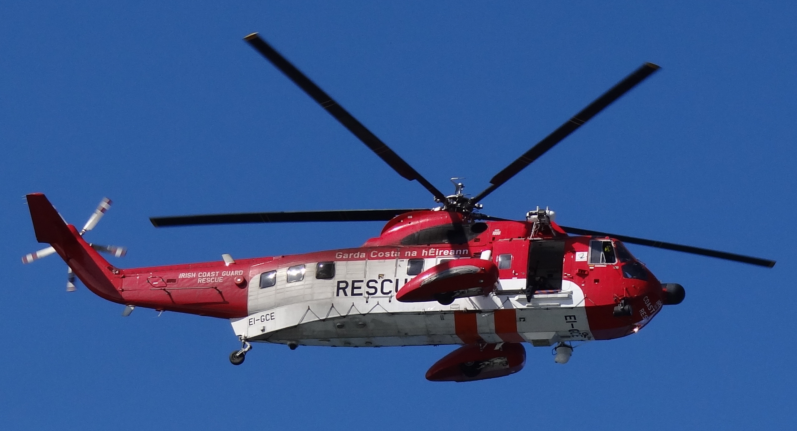 An Irish Coast Guard helicopter patrolling above the Cliffs of Moher.